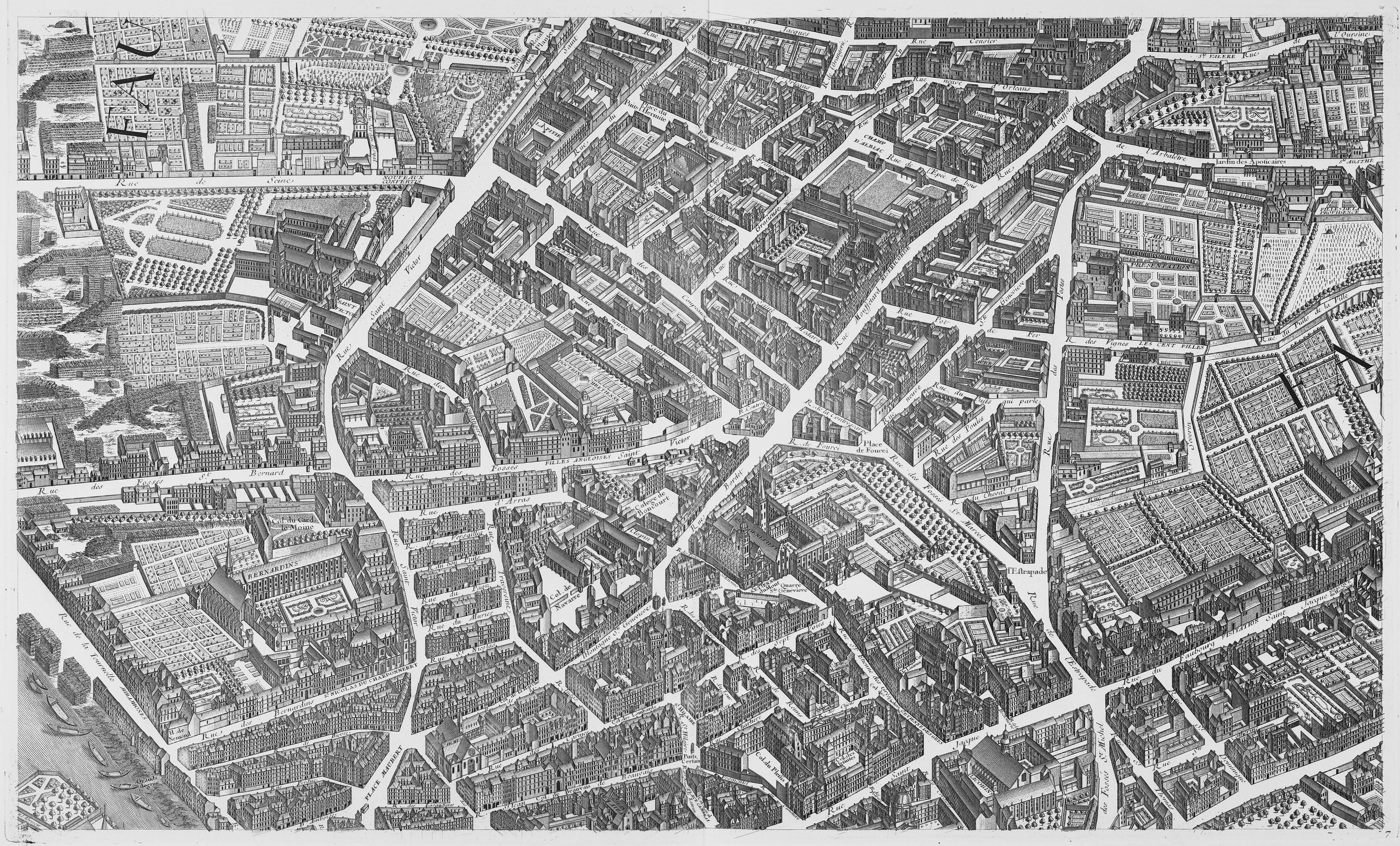 Plate 7 of the Turgot map of Paris